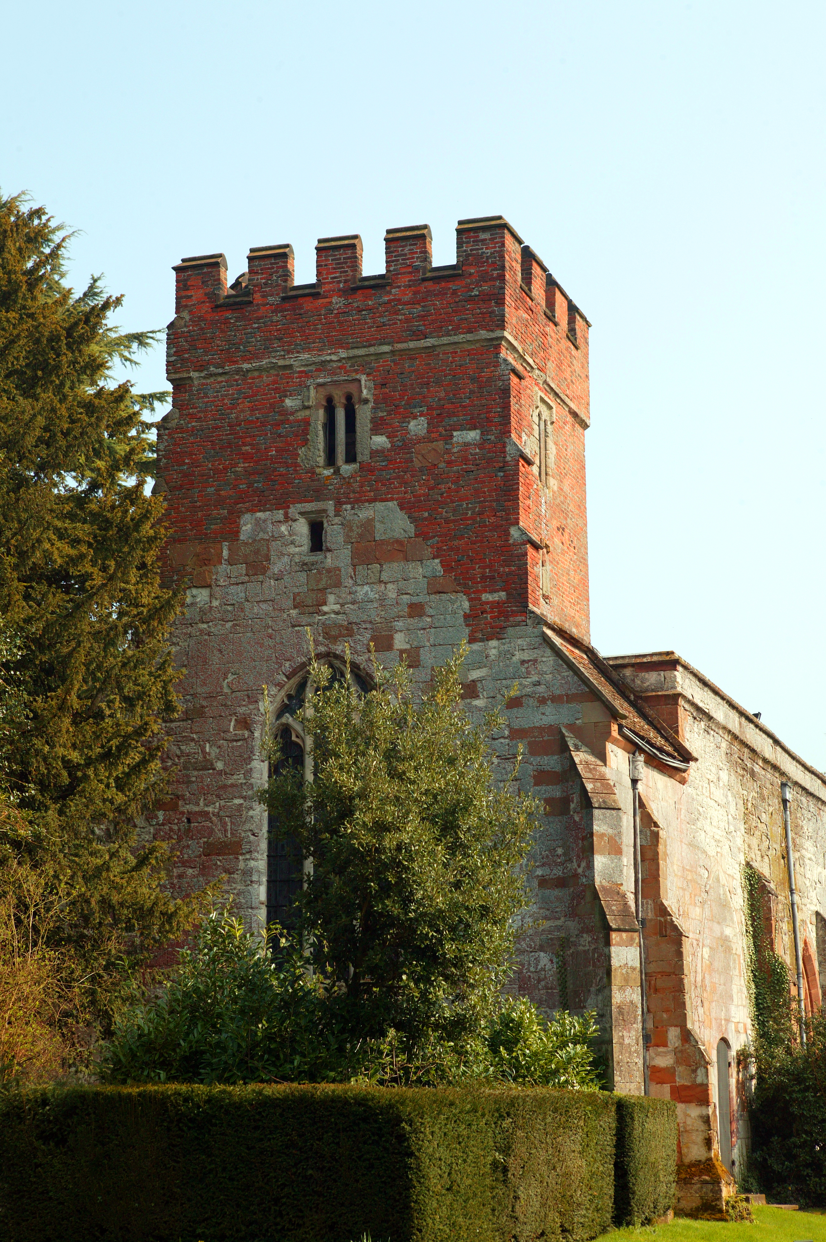 St Leonard's parish church, Wroxall Abbey, Warwickshire, seen from the southwest